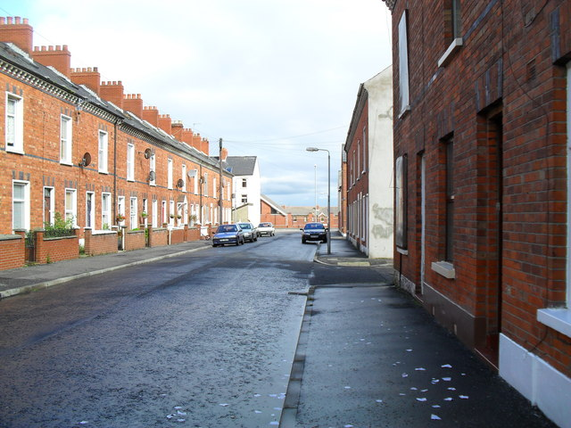 Eccles Street, Belfast Links Tennent Street with Orkney Street in the Shankill area. One of the last remaining streets in the Shankill that hasn't been flattened and redeveloped. Note the derelict house to the right - unfortunately it is a build up of houses like this (as well as a decline in living conditions) that sign the death warrant of a traditional street.